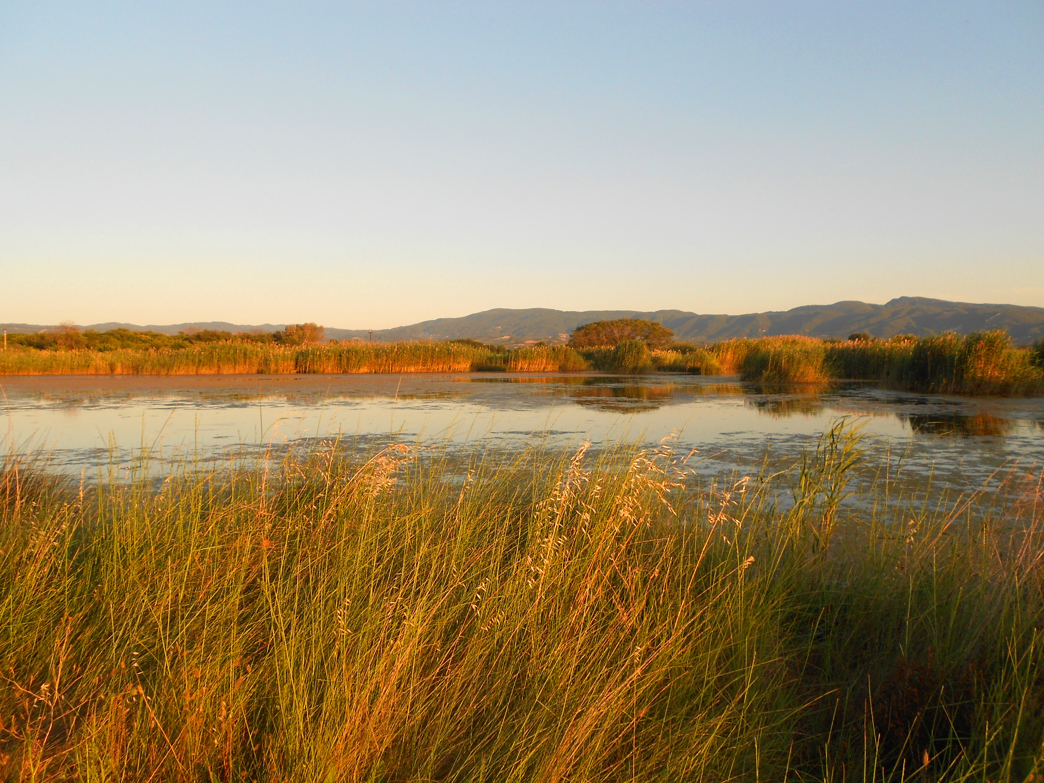 This is a photography of Natura 2000 protected area with ID GR2420007